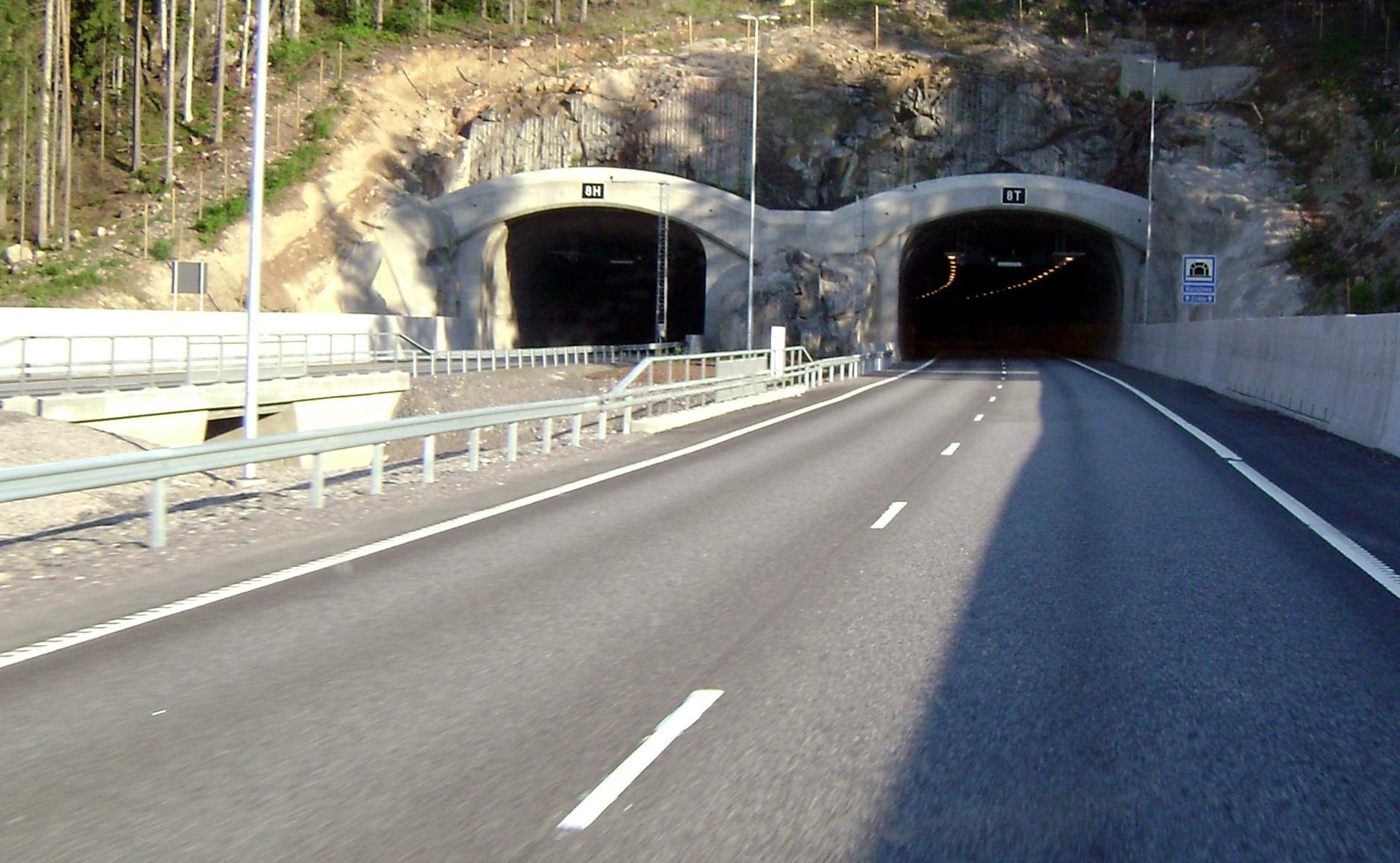 Karnainen road tunnel on the highway 1 (E18) in Lohja, Finland (eastern entrace).